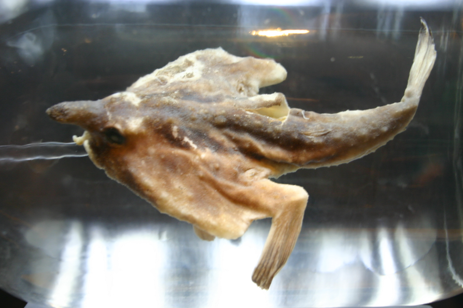 Ogcocephalus darwini at the Smithsonian Natural History Museum: The Sant Ocean Hall.